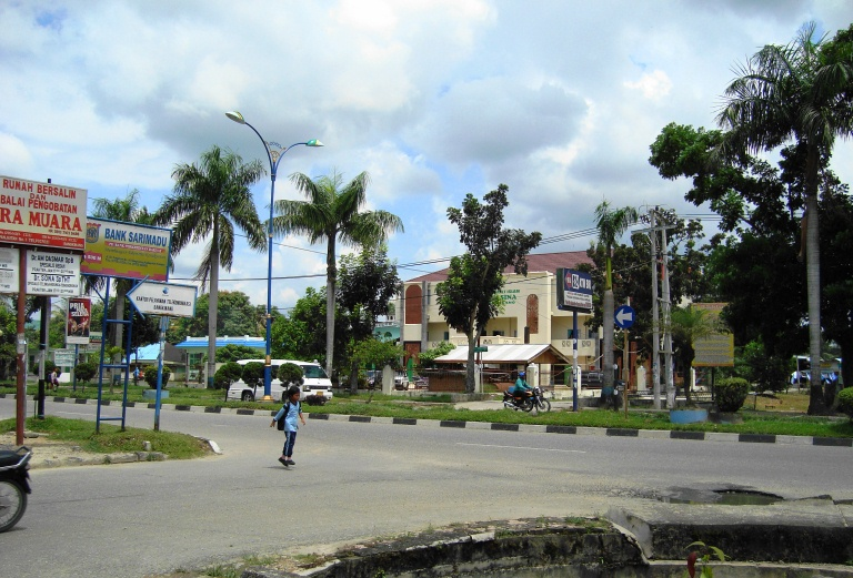 Situation in one corner of the Bangkinang city, the capital of Kampar regency, Riau.